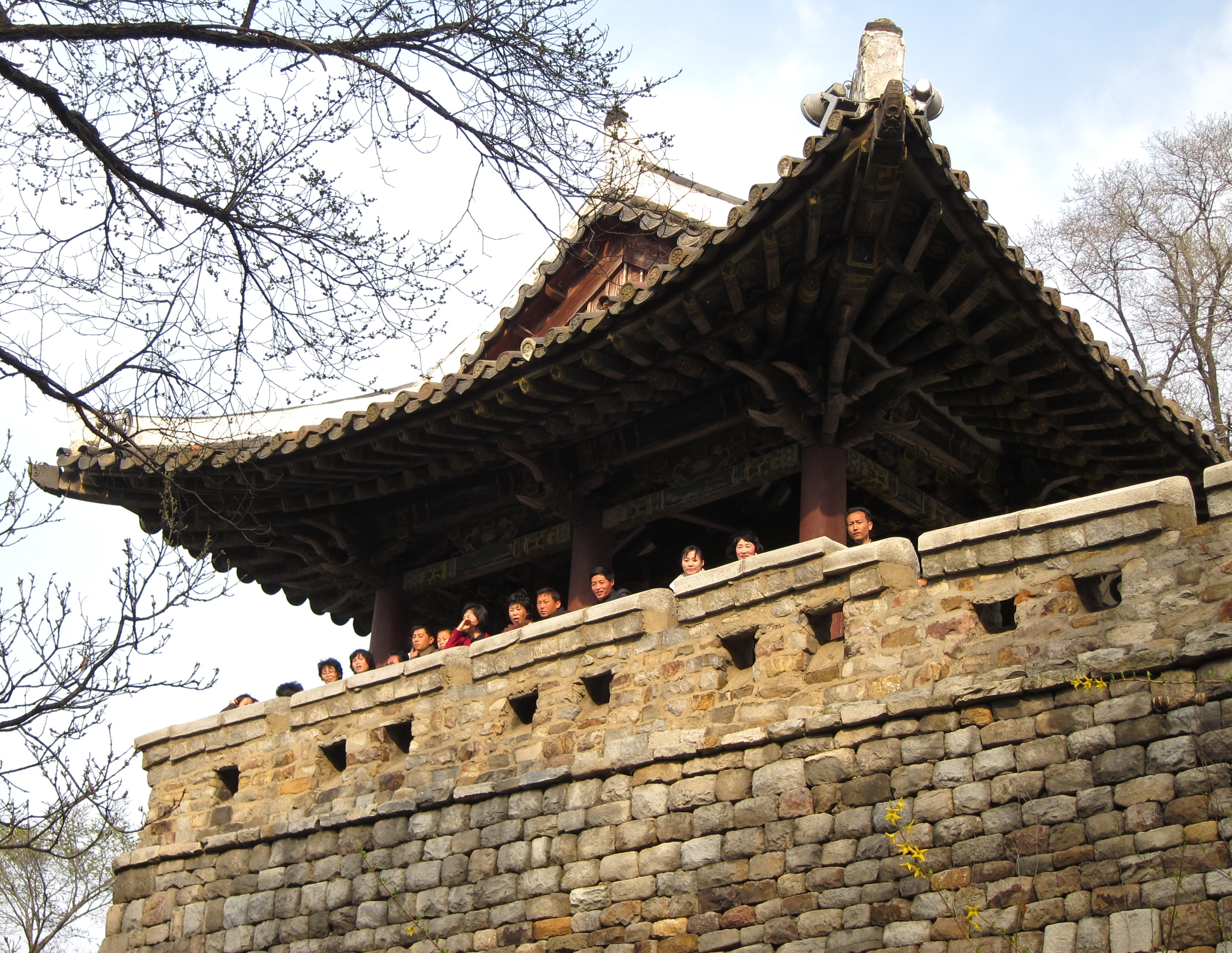 People enjoying the late afternoon view from the pavilion at the top of Moran Hill; Pyongyang, DPRK (North Korea)